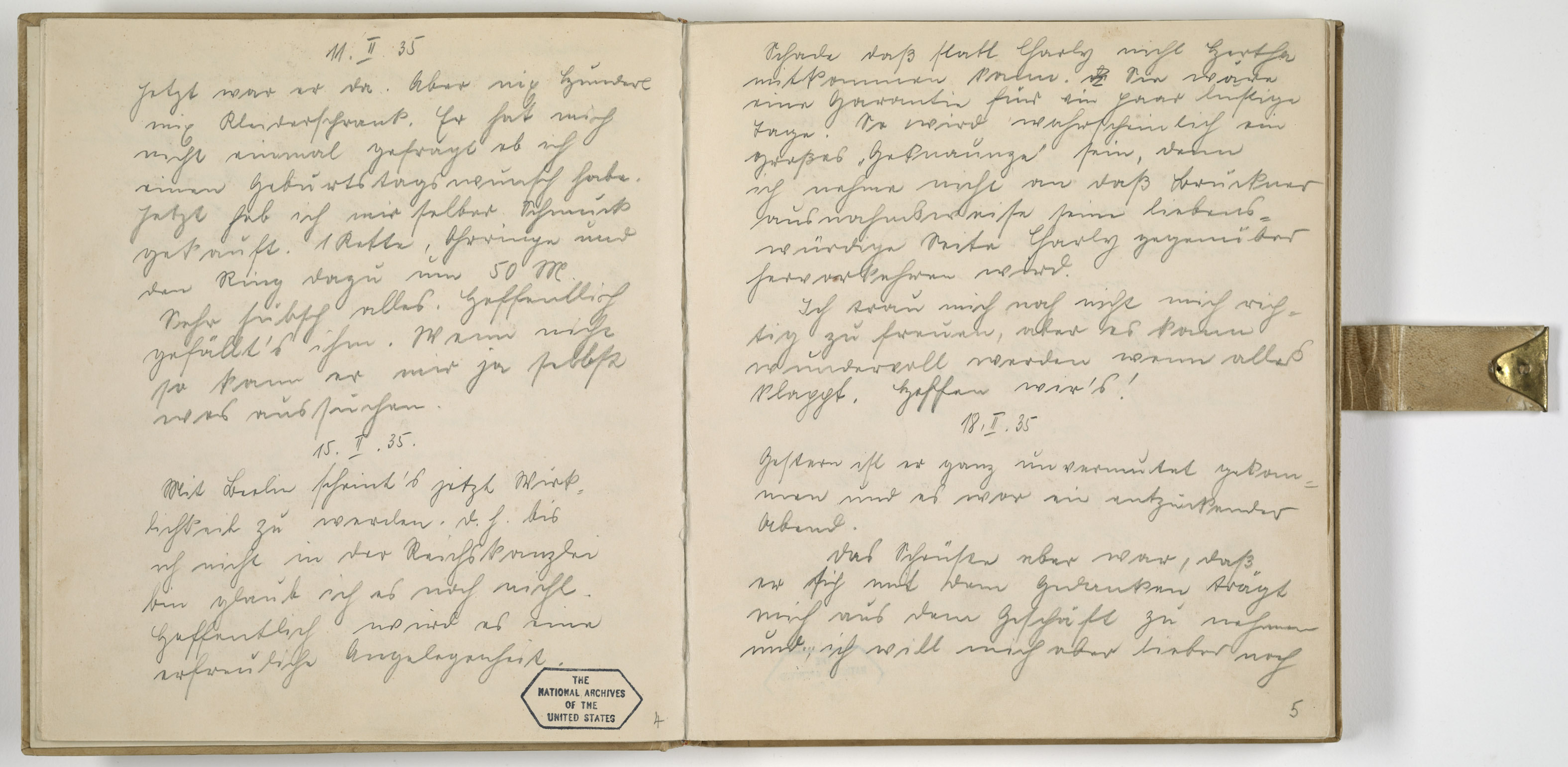 Diary of Eva Braun page 3